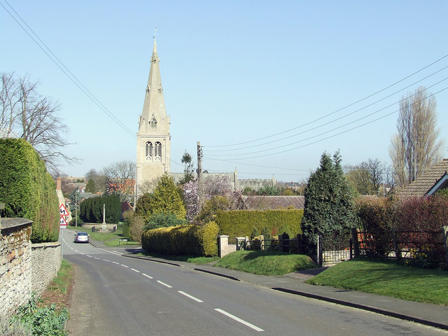 Captains Hill